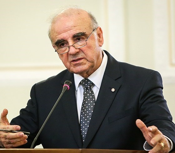 George William Vella, Foreign Minister of Malta in press conference with Iranian Foreign Minister Mohammad Javad Zarif in Tehran